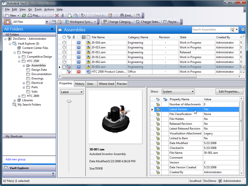 Autodesk Vault 2010 Stand Alone Client Interface